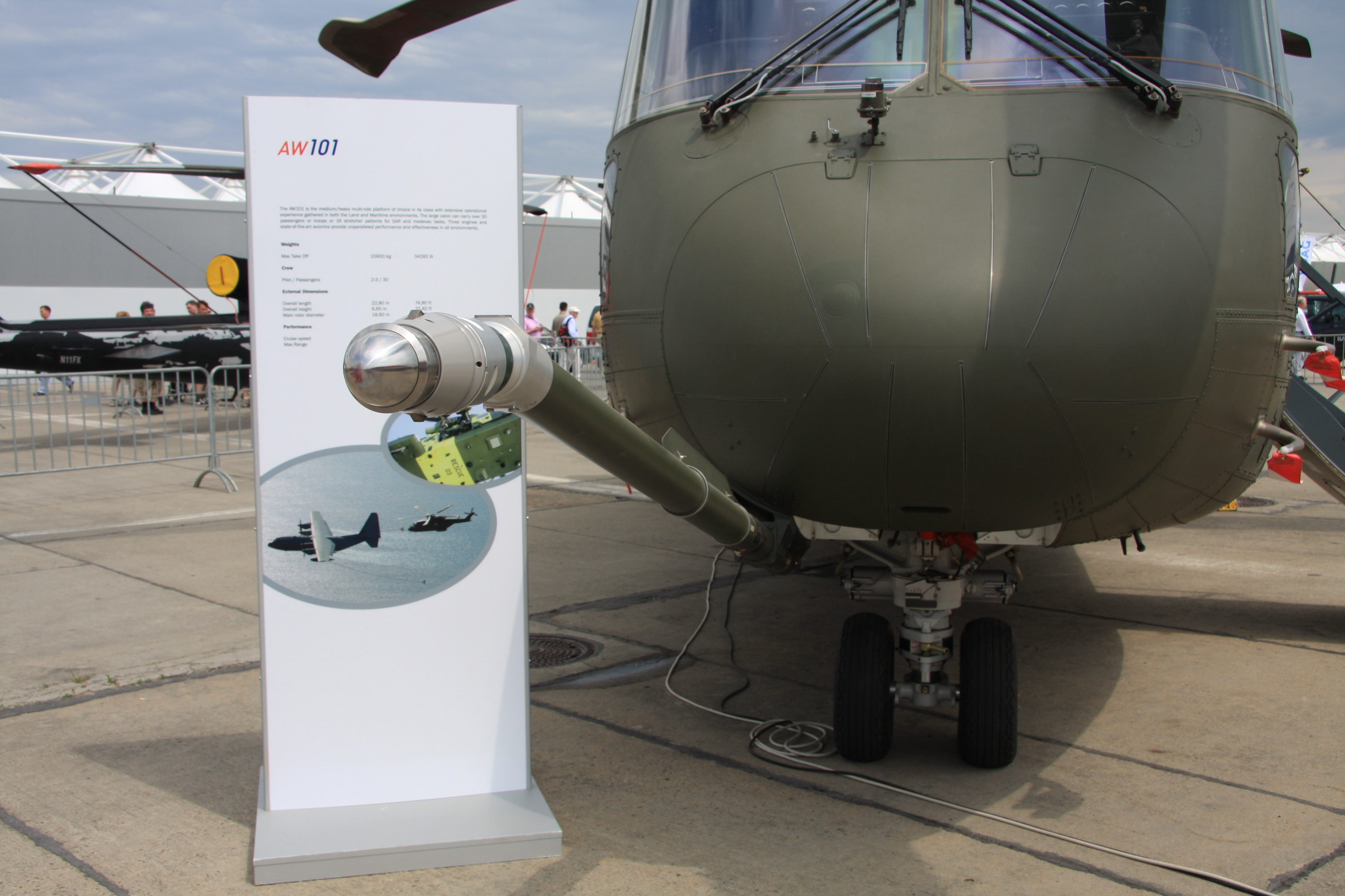 A probe for aerial refueling on an AgustaWestland AW101 (picture taken during the International Air and Space Exhbition)